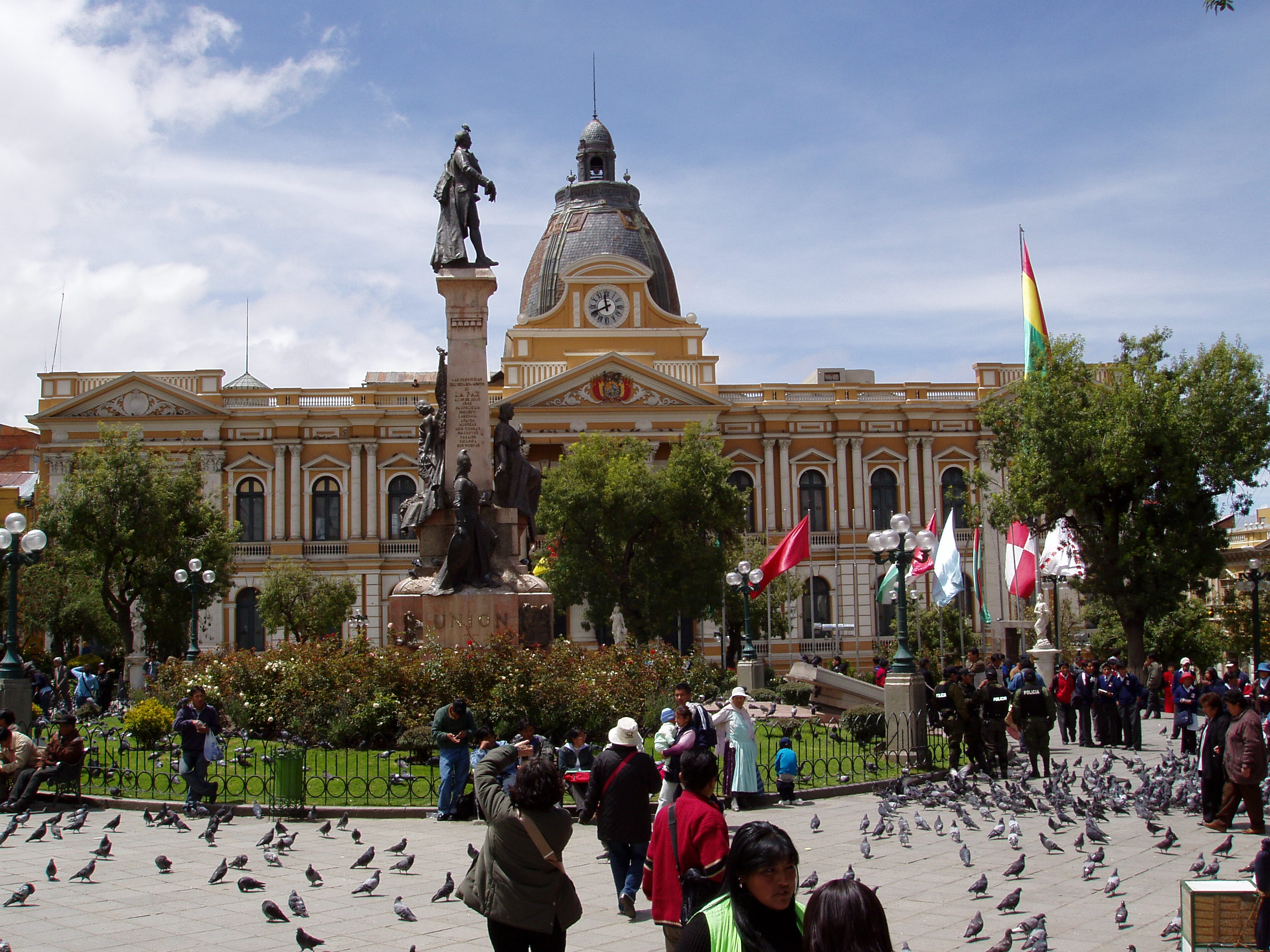 Palacio del Gobierno